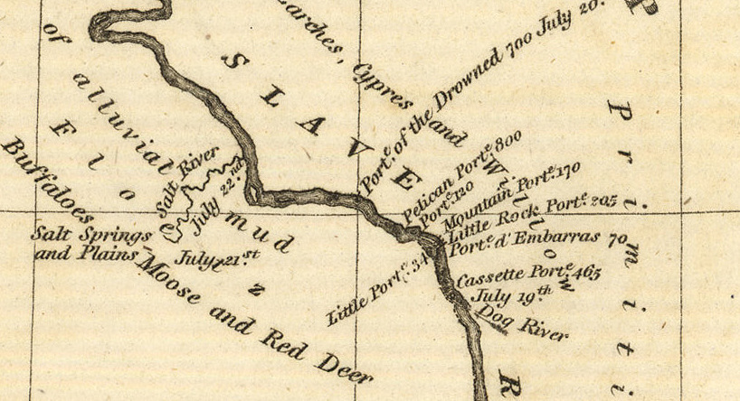 A section of Franklin's map showing Salt River and parts of the Slave River, NWT